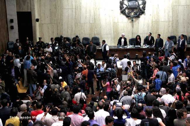 Session of High Risk Court A (Tribunal A de Mayor Riesgo) on the day ex general Efrain Rios Montt was sentenced for genocide (May 10, 2013).